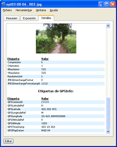 Geocoding of a photography by means of Exif header with tags